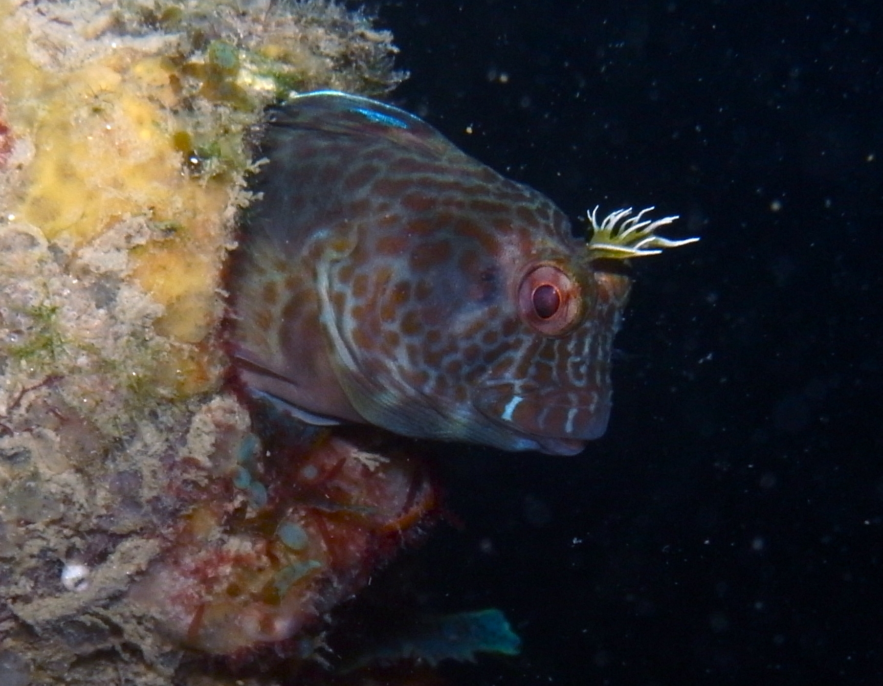 Horned Blenny under the jetty, Chowder Bay, Sydney, NSW, Australia